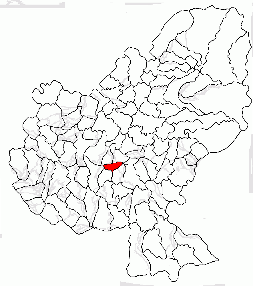 Locator map of the commune of Cristești, Mureș County, Romania